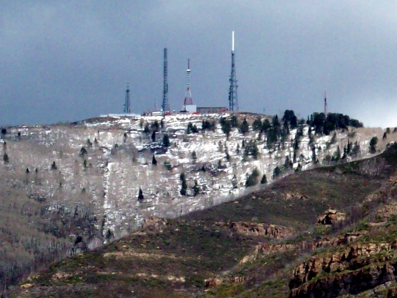 A close up of Big Farnsworth, which houses KSL and all digital television stations minus impending KSTU channel 13. This is Farnsworth Peak, located west of Salt Lake City, Utah. Taken from the west face.